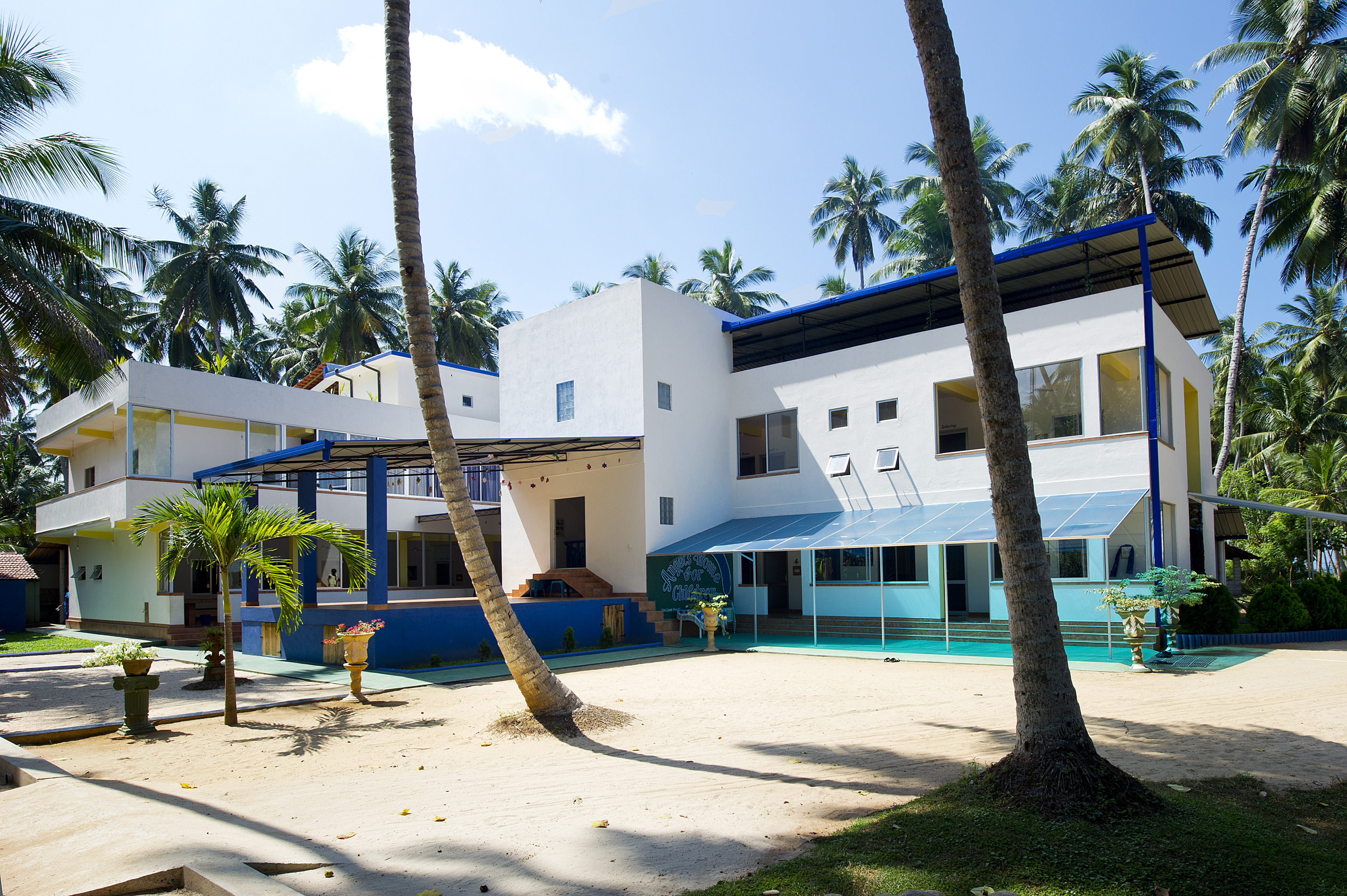 Frontview of the children home "Angels Home for Children" of the Dry Lands Project e.V. Marawila / Sri Lanka.